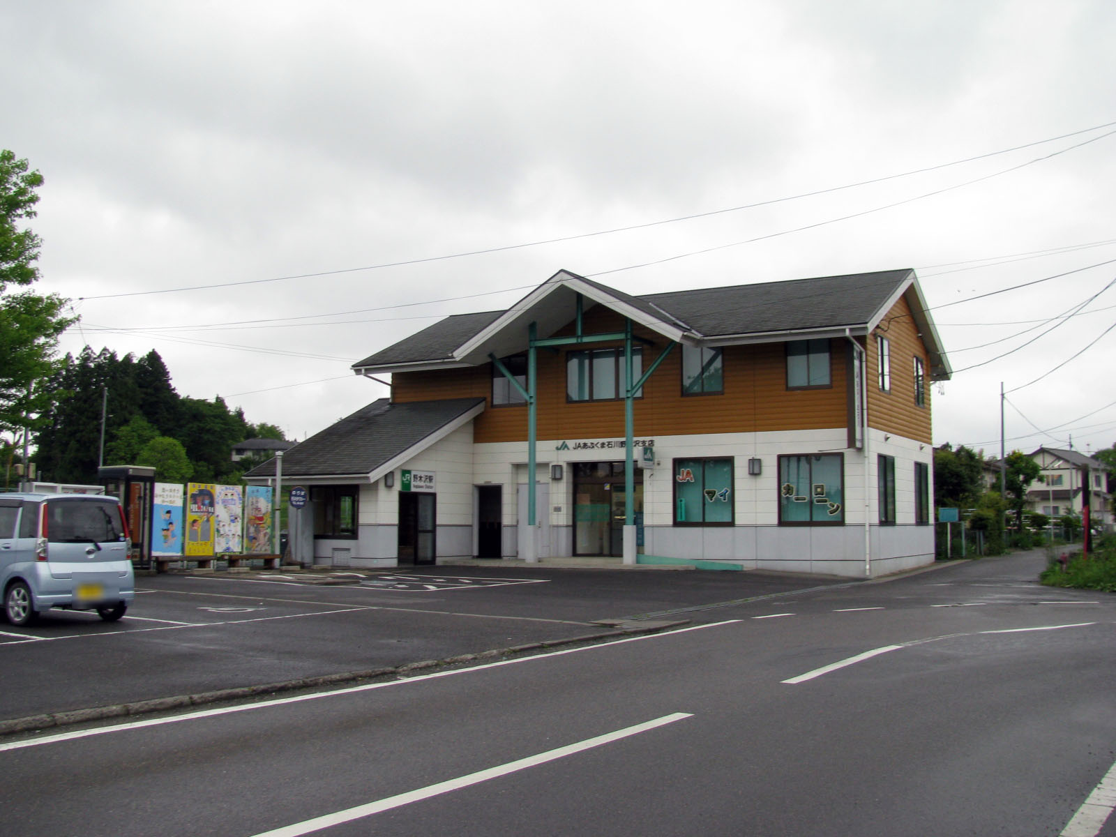 Nogisawa Station on Suigun Line